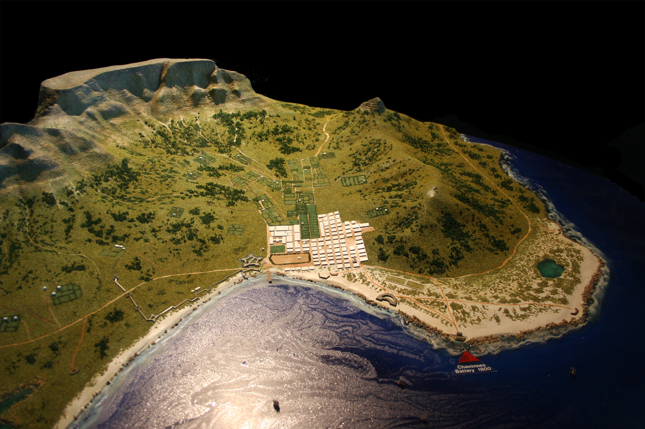 A model of Cape Town in 1800 as seen from an elevated position to the East of the fortified town. The original model is from the Chavonnes Battery Museum.